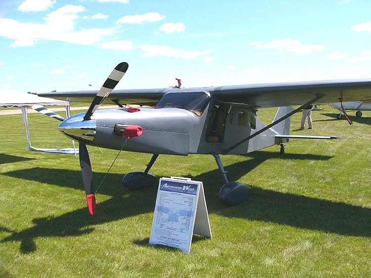 AeroComp 7SL, registration C-GTOD photographed at the COPA Convention Wetaskiwin, Alberta